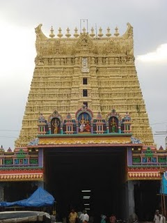 This is the picture of a popular temple in Sankarankovil, Tirunelveli, India.